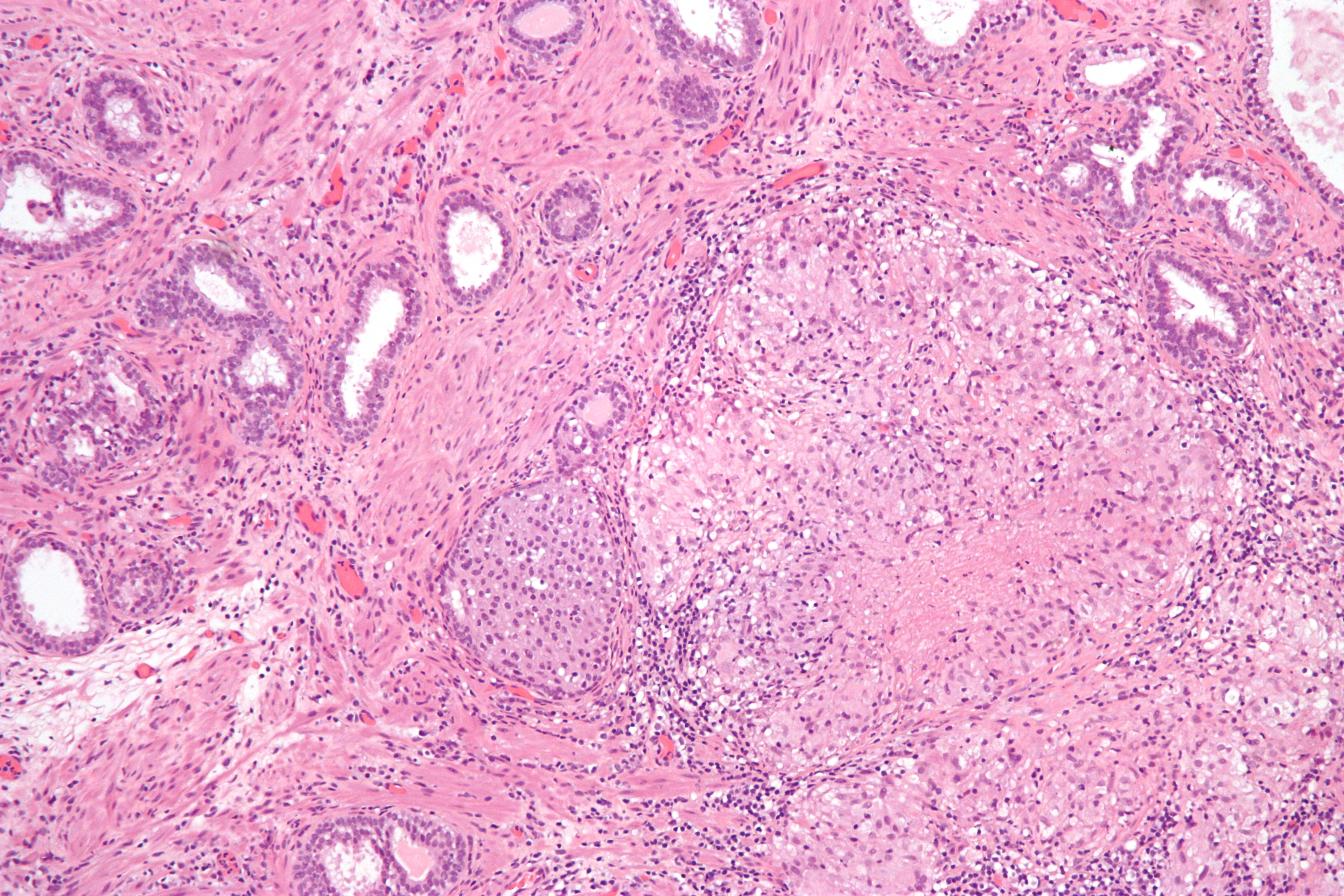 Micrograph of granulomatous inflammation of the urinary bladder neck/prostate due to BCG treatment of bladder cancer. H&E stain. Related images Granulomatous - low mag. Granulomatous - high mag. Acute inflammation. Chronic inflammation.